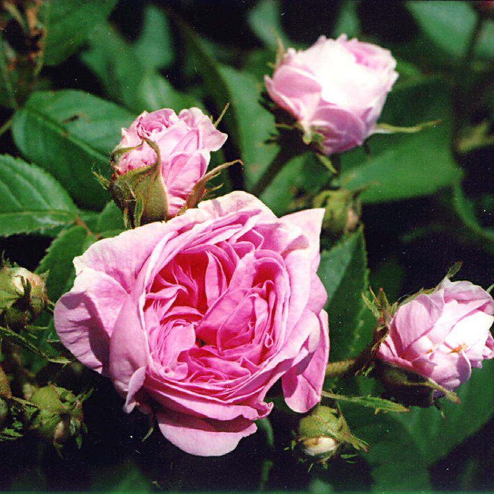 Old Garden Rose Damascena group